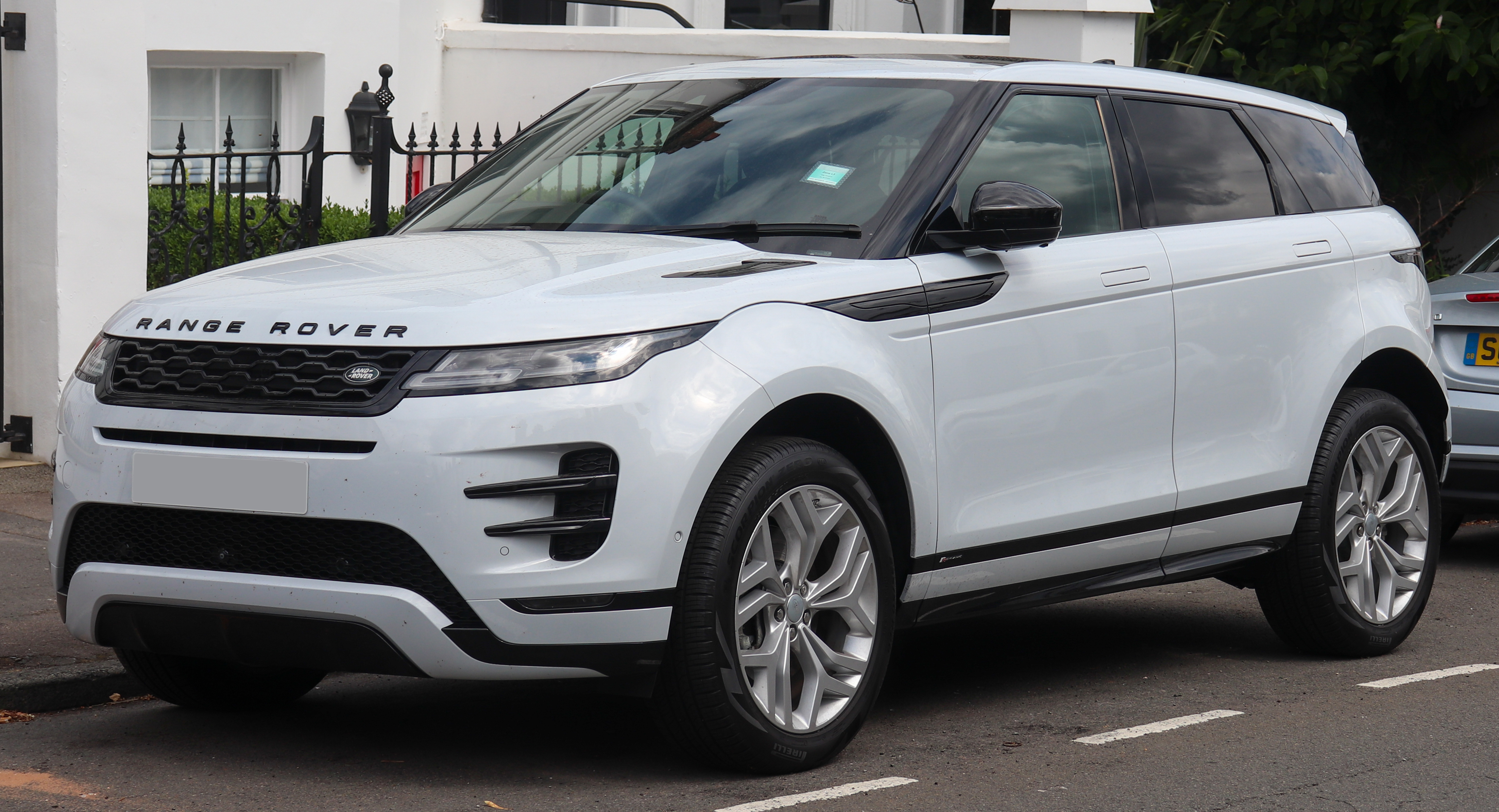 2019 Land Rover Range Rover Evoque R-Dynamic S 2.0 Front Taken in Leamington Spa